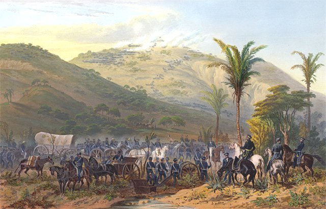 Battle of Cerro Gordo during the Mexican-American War, painting by Carl Nebel.